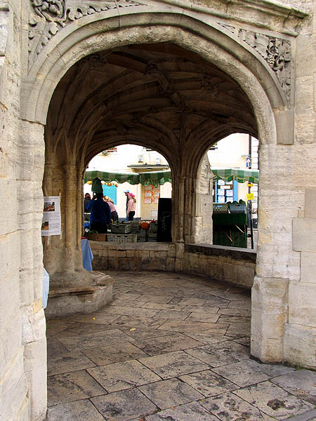 Market Place: Malmesbury. This very old market place is in the town square, next to the abbey. A small market is held here selling organic produce and other foodstuffs.